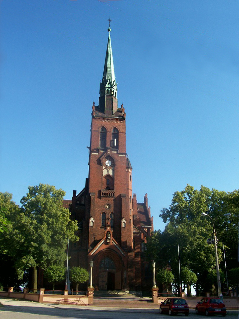 The church of the Mother of God of the Incessant Help in Opole-Nowa Wieś Królewska, Poland